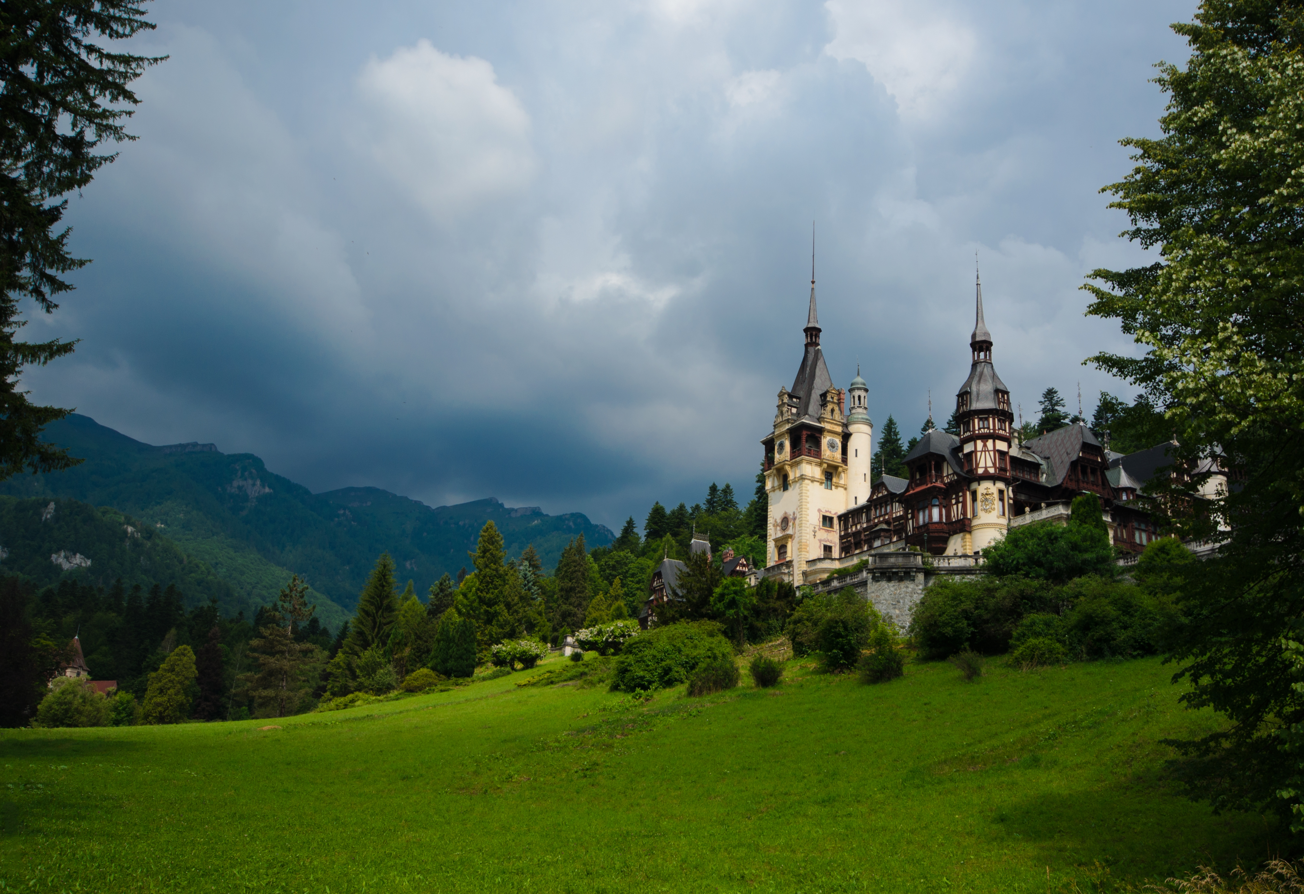 The calm before the storm at the Peles castle. 01